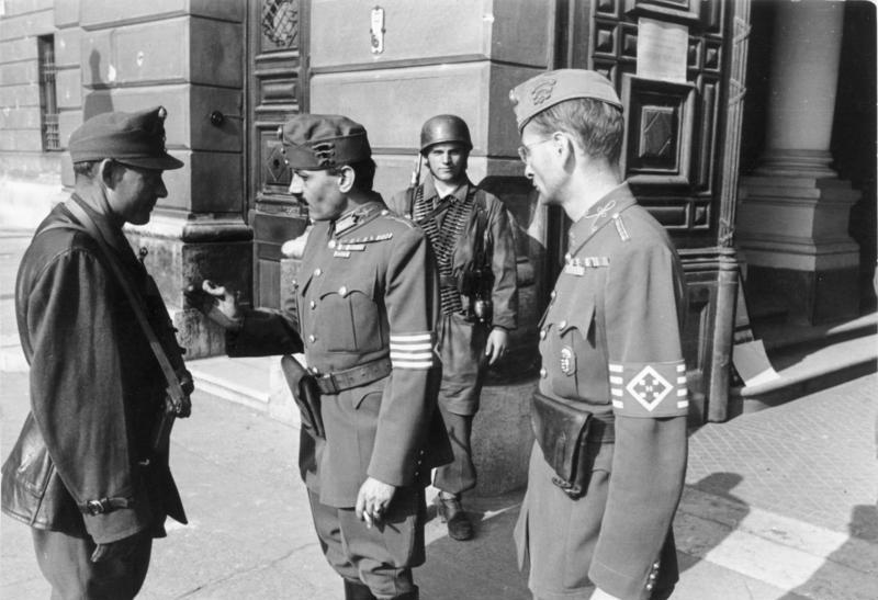 Ernö Gömbös, (r.) aide-de-camp to Ferenc Szálasi and Gyula Gömbös' son, along with a Honved officer and a member of the Arrow Cross, in front of the Ministry of Defense; PK Eins Kp Lw zbV